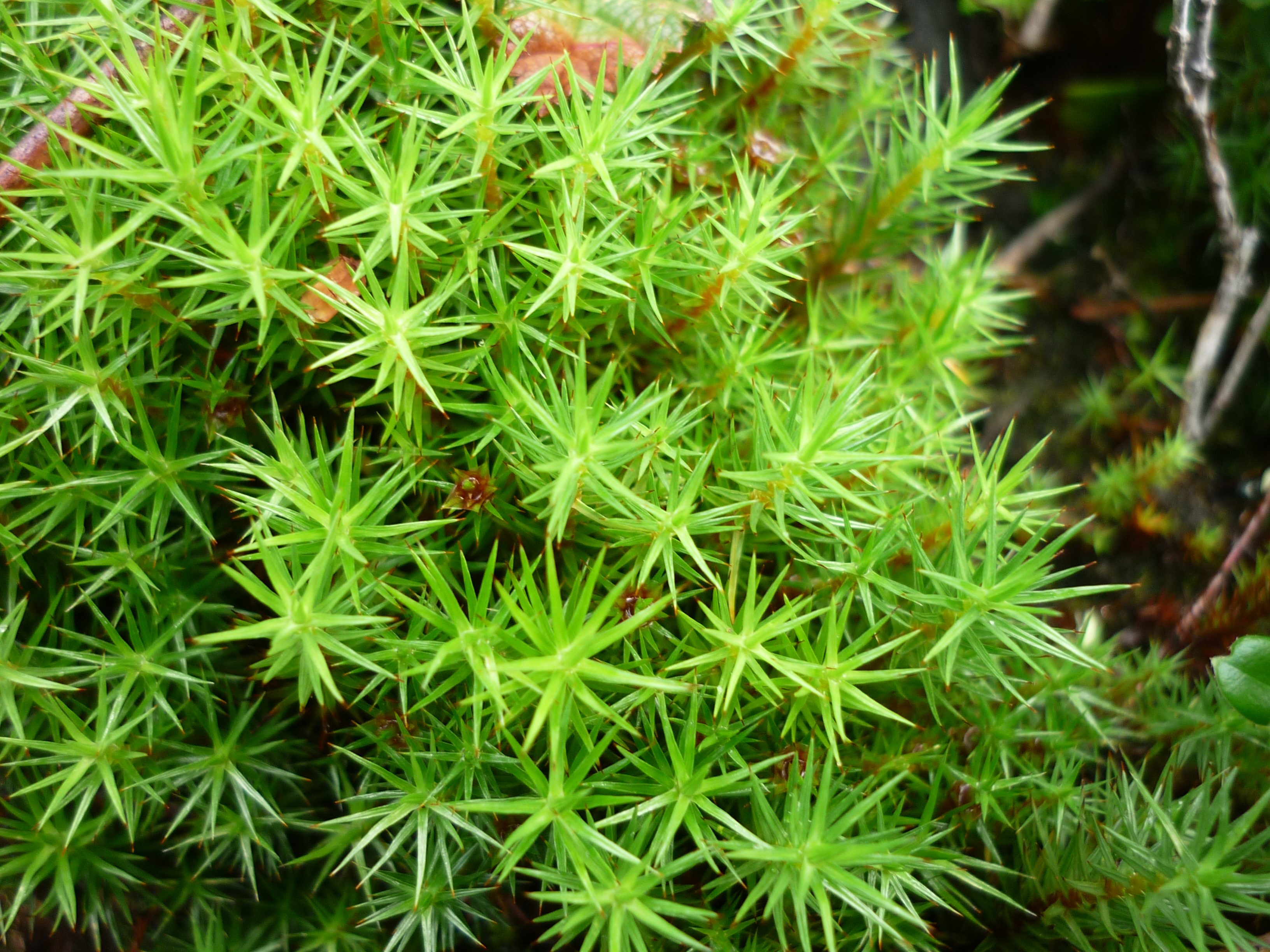 Raba-karusammal Pääsküla rabas